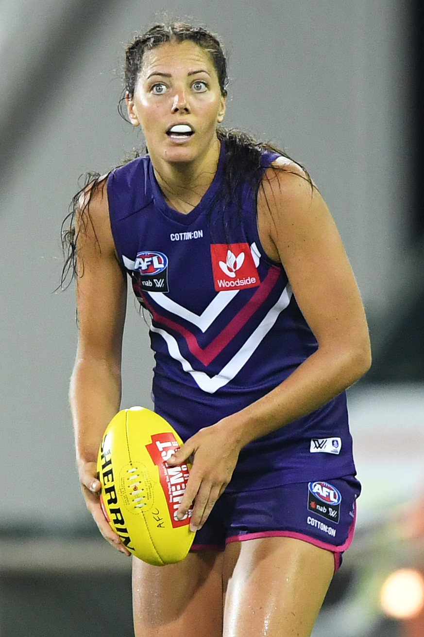 Parris Laurie of Fremantle during the 2019 AFL Women's practice match between the Adelaide Football Club and Fremantle Football Club at TIO Stadium on January 19, 2019 in Darwin Australia.